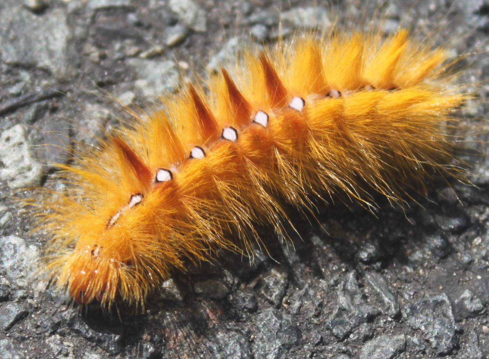 Caterpillar of the sycamore (Acronicta aceris)